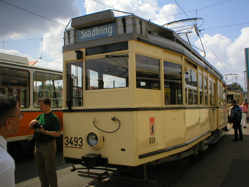 Berlin's tramway type TM36, constructe in 1927